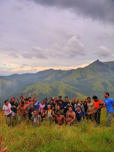 Chennai Trekking Club group at the 971 meters Ombattu Gudda Peak, inside the Kabbinhole Reserved Forest, Karnataka, India.